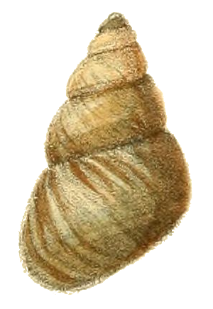 Drawing of an abapertural view of a shell of Bellamya aeruginosa from its type description.